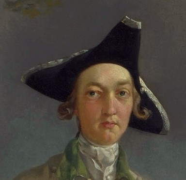 Robert Andrews of the Auberies and Frances Carter of Ballingdon House after the marriage.